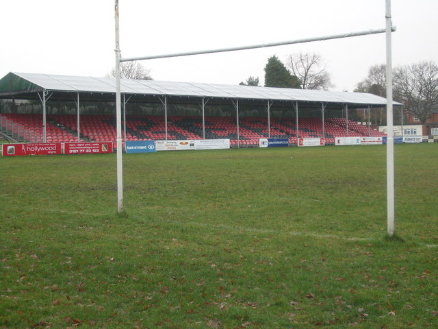 Birmingham and Solihull Rugby Club The BEES main stand